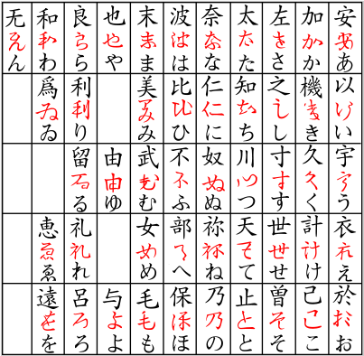 Chart of sogana (in red), man'yōgana (above), and hiragana (under).